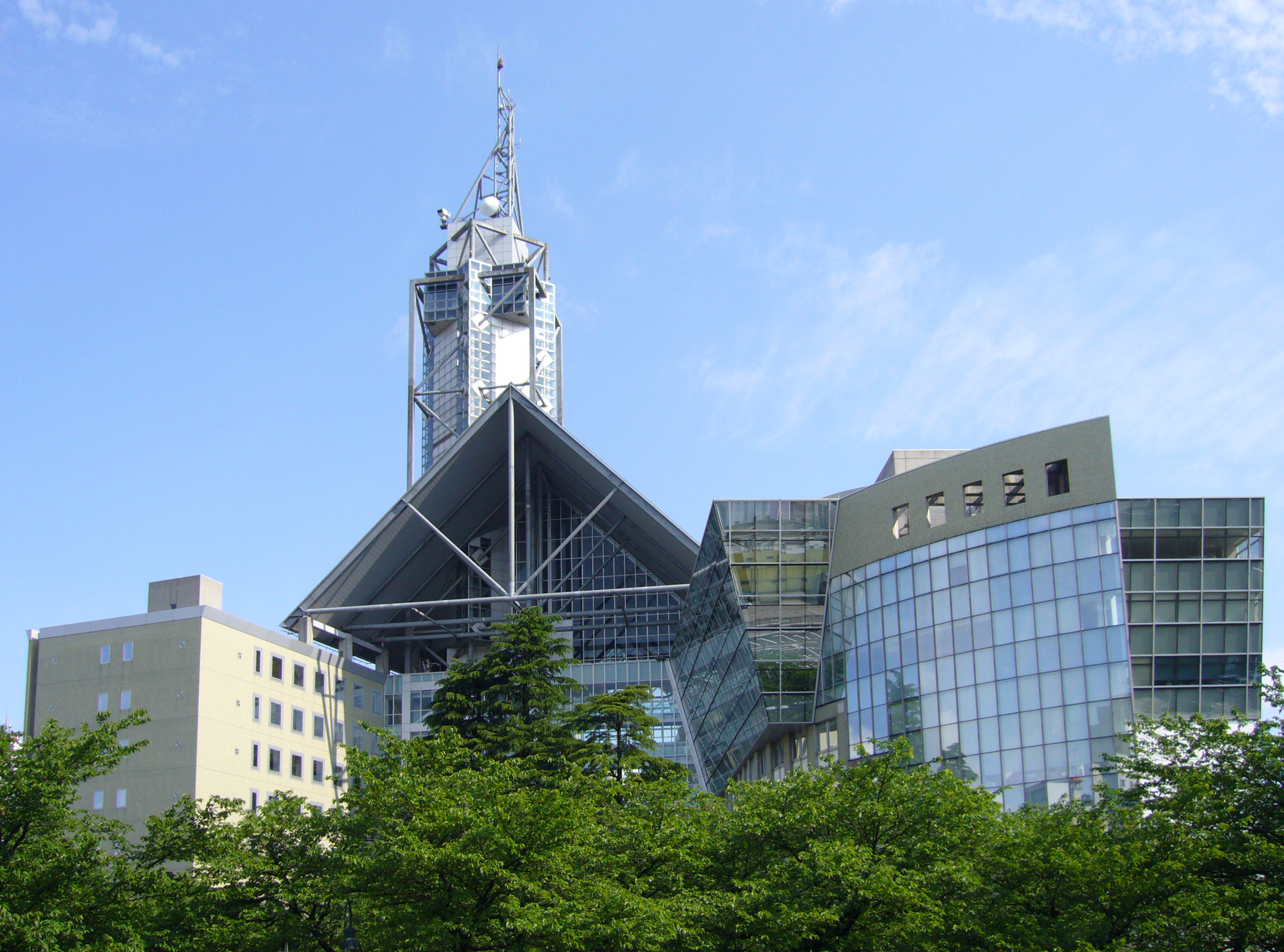 Toyama city office in Toyama, Japan富山市役所（富山県富山市）